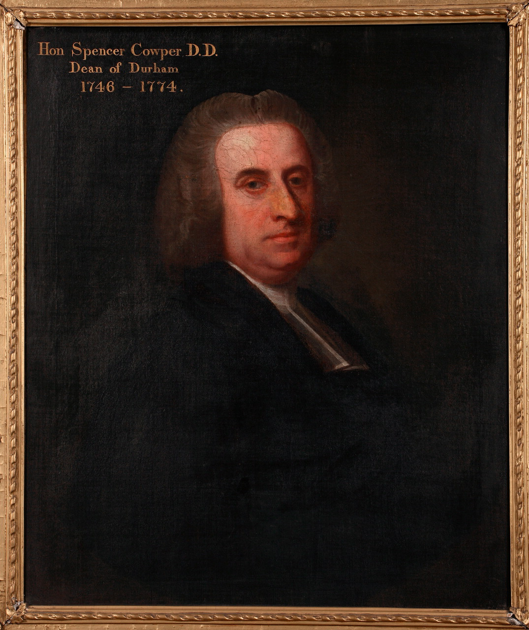 Portrait in oils by unknown artist of "Hon Spencer Cowper DD, Dean of Durham 1746-1774". Durham Cathedral.